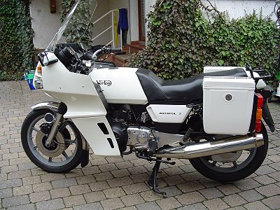 Norton Interpol 2 Prototyp mit wassergekühlten Wankelmotor. Norton Interpol 2 prototype with watercooled Wankel rotary engine.